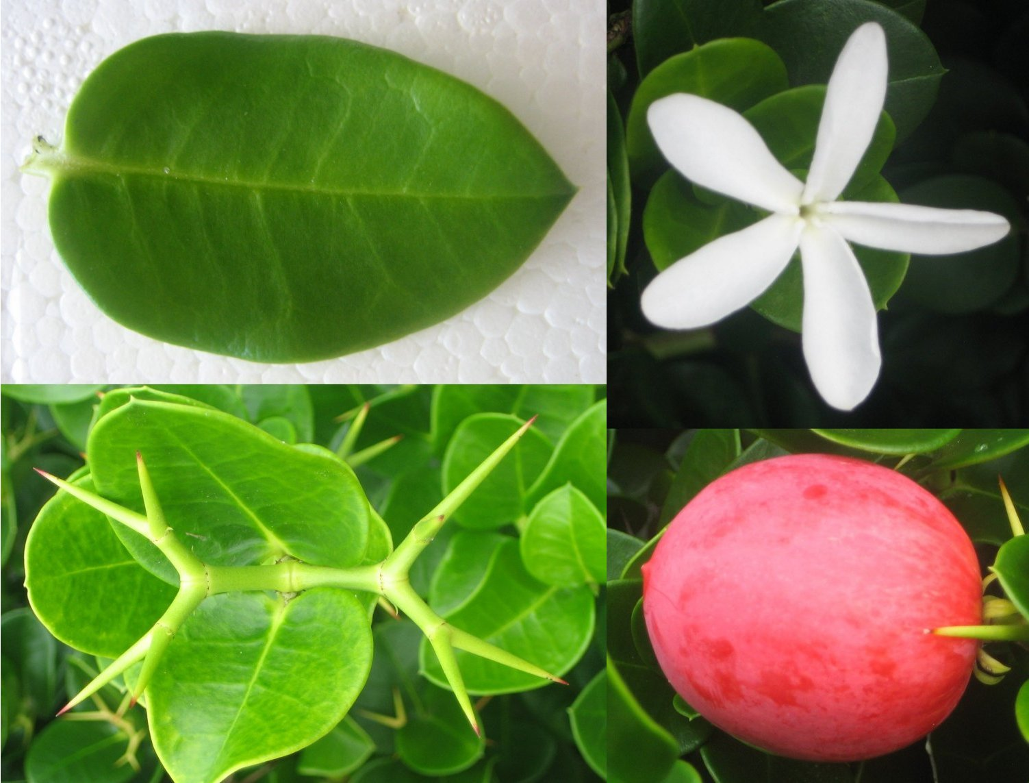 Carissa grandiflora (natal plum): leaf, flower, thorns and fruit